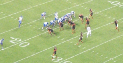 Boise State on offence against Virginia Tech during their game at FedEx Field in Landover, MD on September 6, 2010.